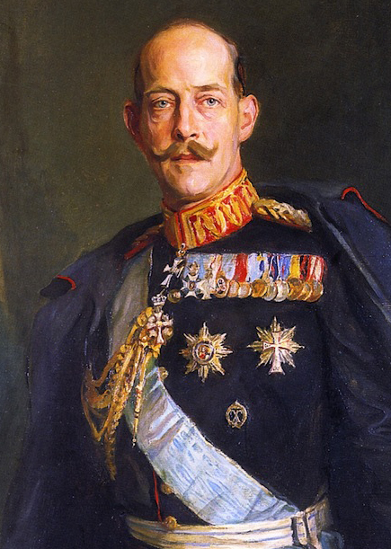 Constantine I of Greece.